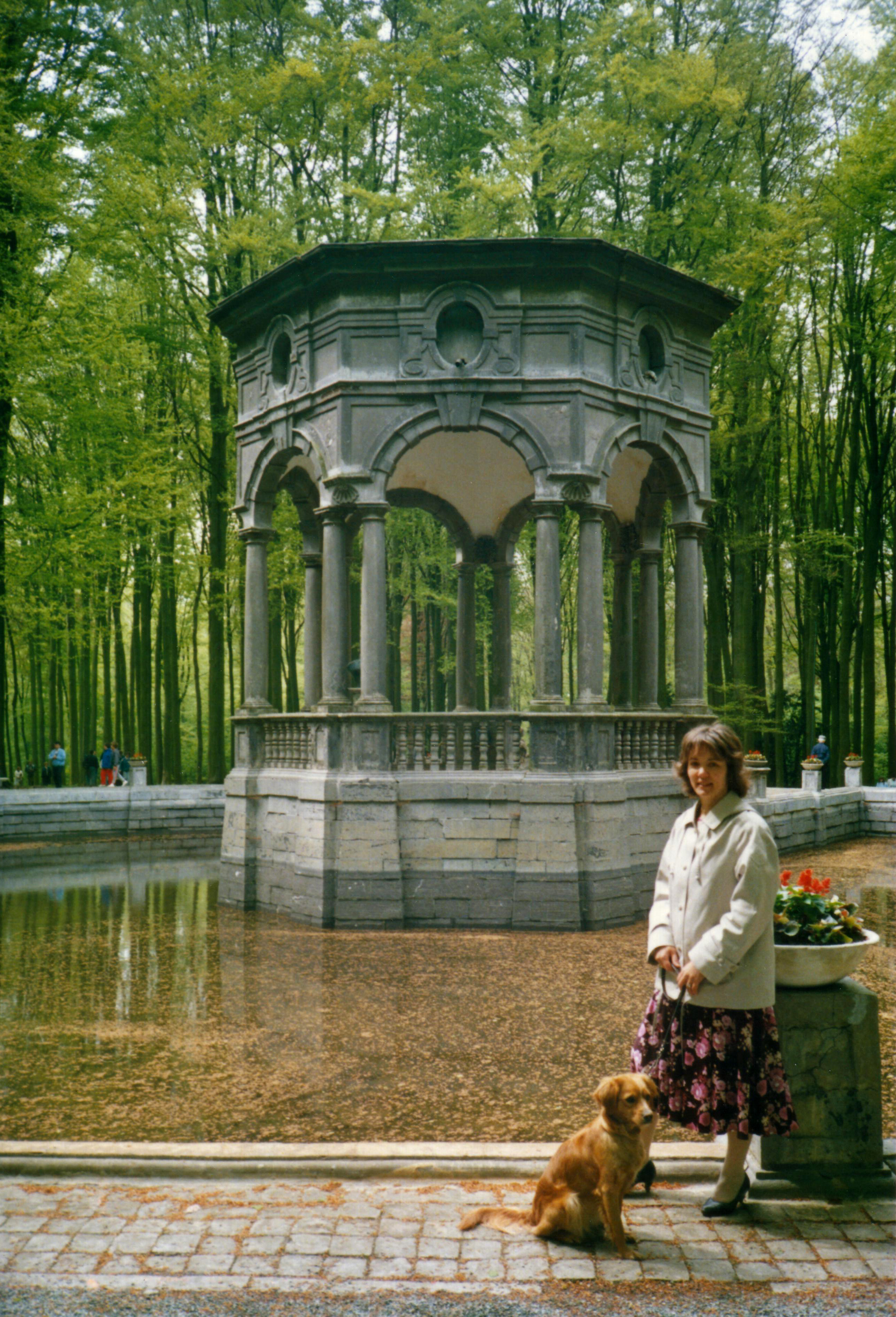 Enghien (Belgium), the heptagonal pavilion of the baroque park of the "Seven Stars", 1656.